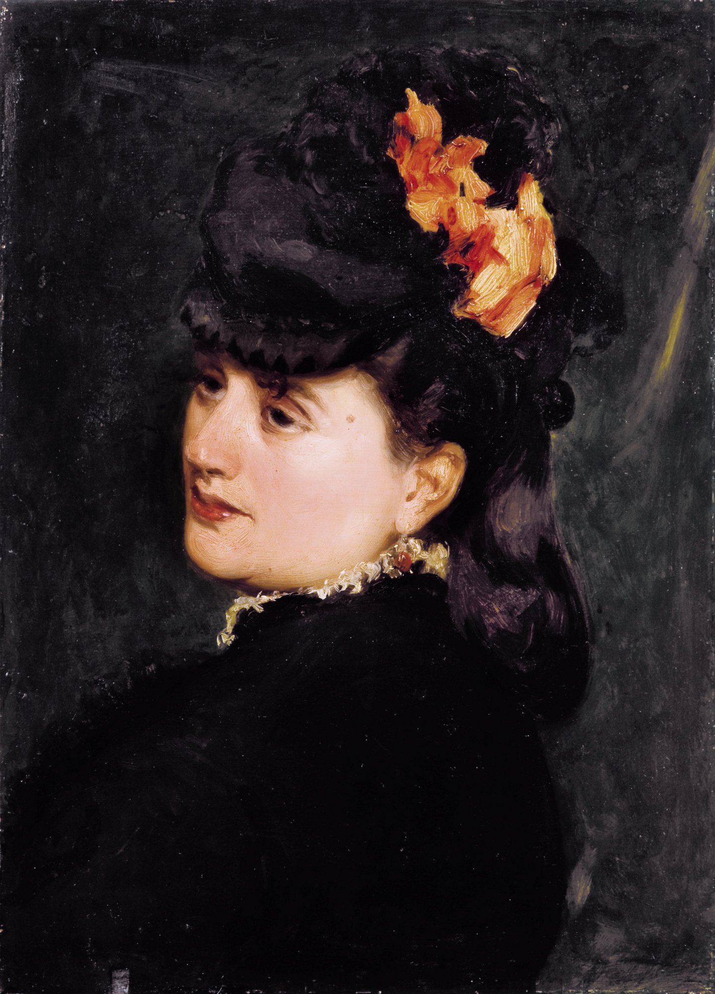 Madame Ernest Feydeau, future Madame Henry Fouquier oil on panel 53.5 x 39 cm signed t.l.: Carolus Duran à E Feydau inscribed verso: Me Fouquier 20bis avenue de Neuilly/Seine